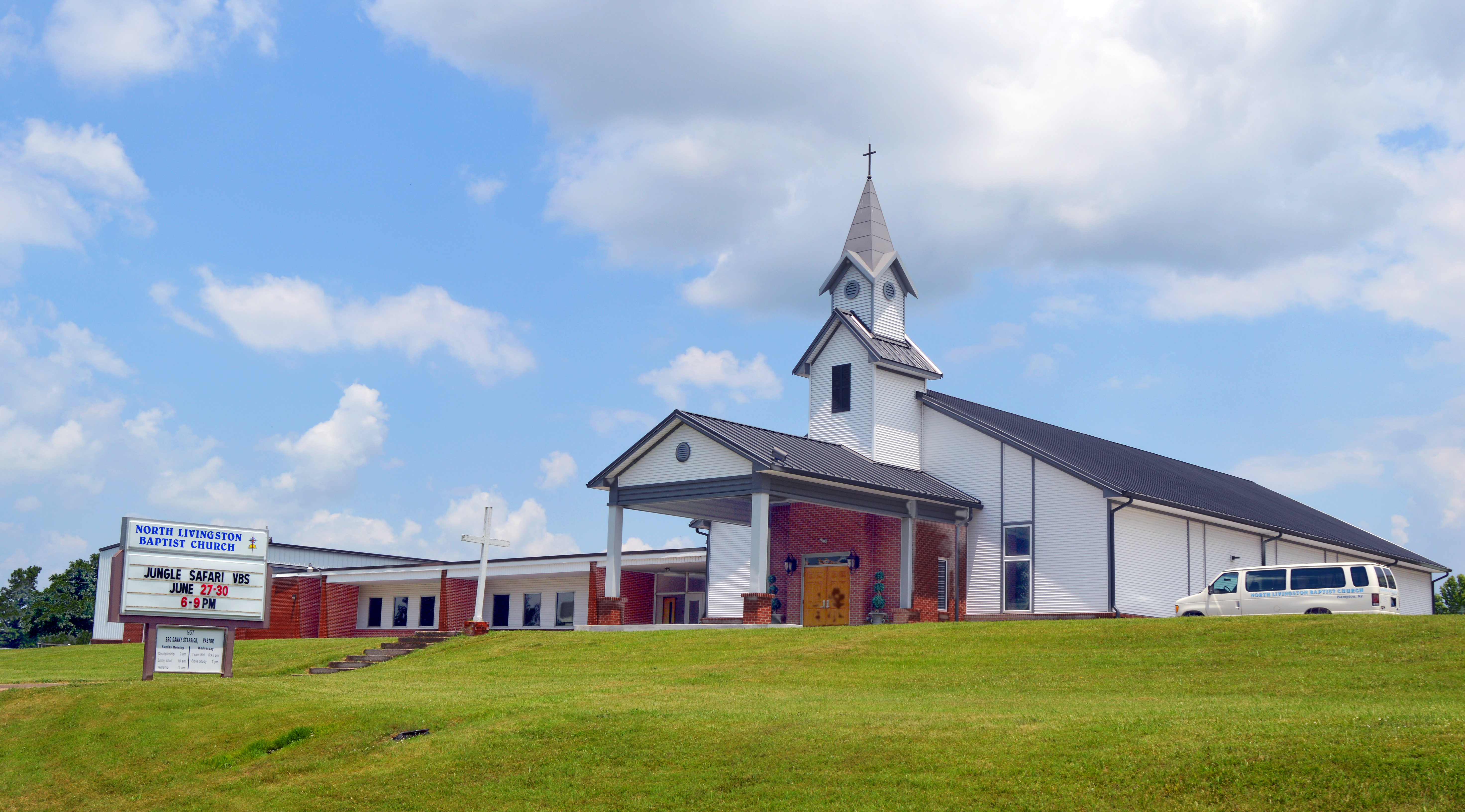 Front and southern side of the North Livingston Baptist Church, located at 967 Carrsville Road (Kentucky Route 135) in Hampton, Kentucky, United States.